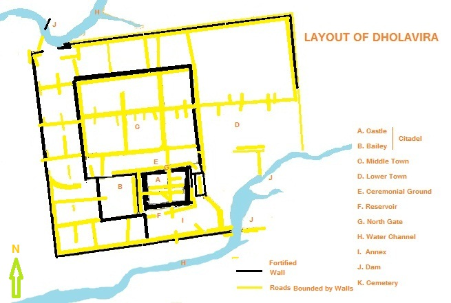 Layout Plan of Dholavira Archeological Site at Timba Kotda, Dholavira, Kutch, Gujarat. Other information There are some places marked in drawing with help of Archeological Survey of India Website.